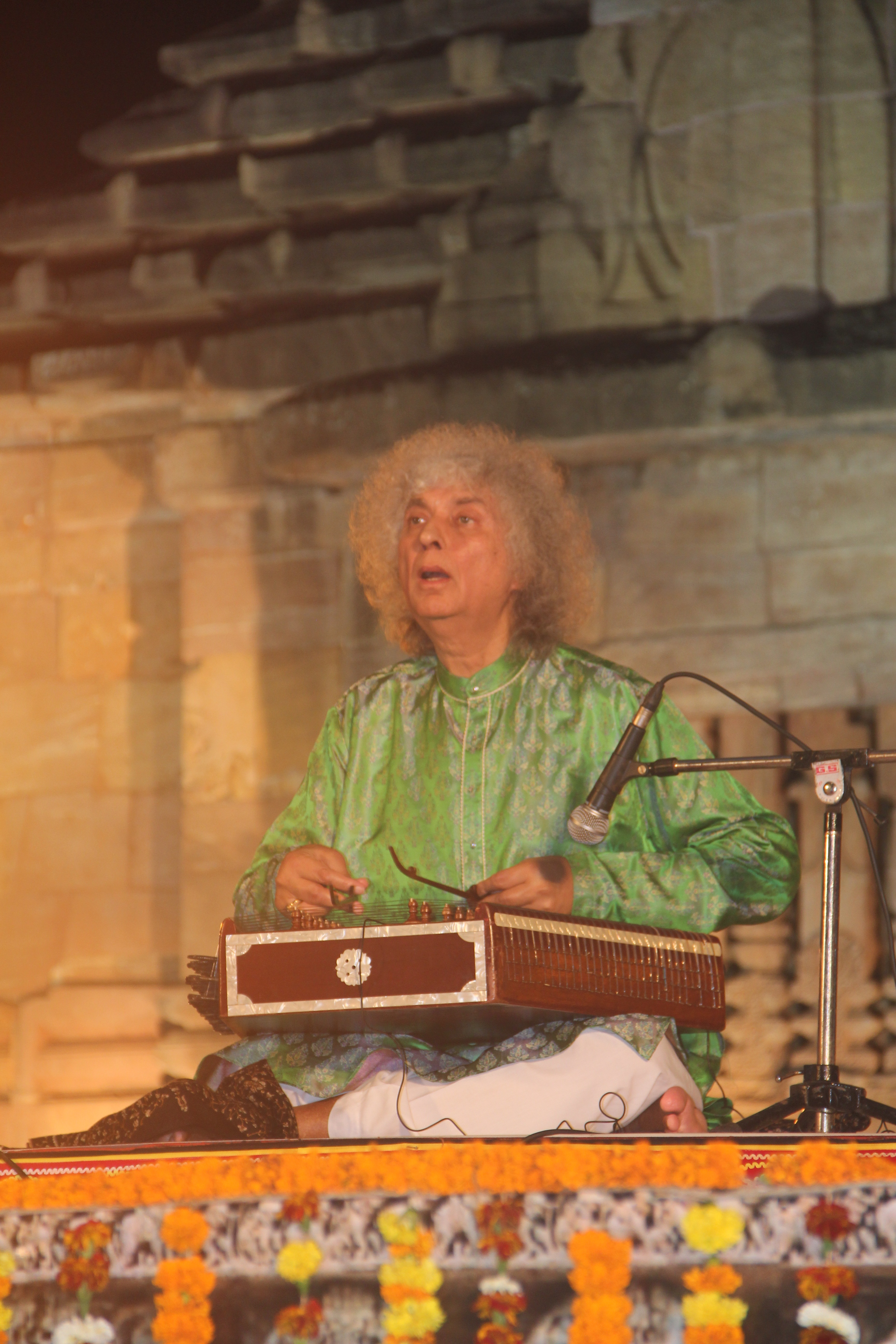 Pt. Shiv Kumar Sharma Performing at Rajarani Music Festival-2016, Bhubaneswar, Odisha, India